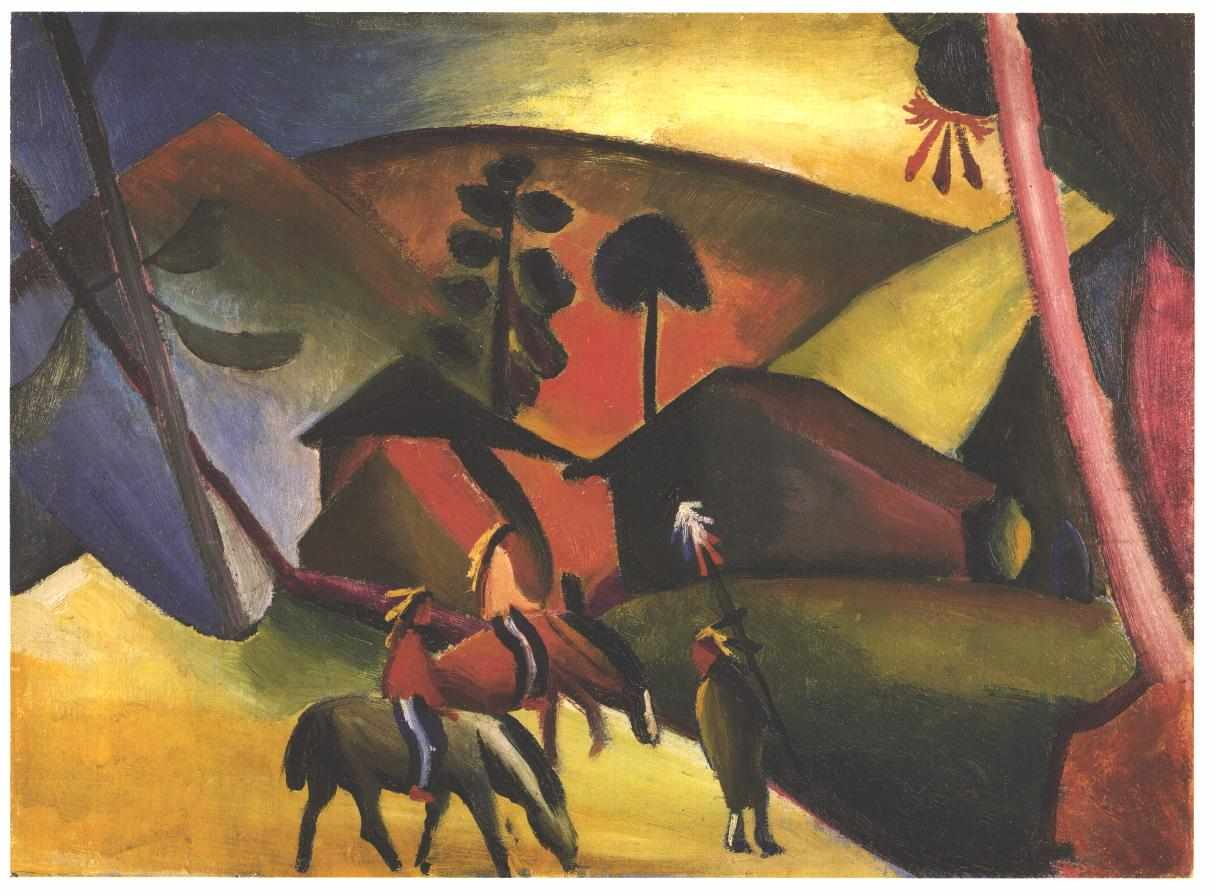 Native Aericans on horses